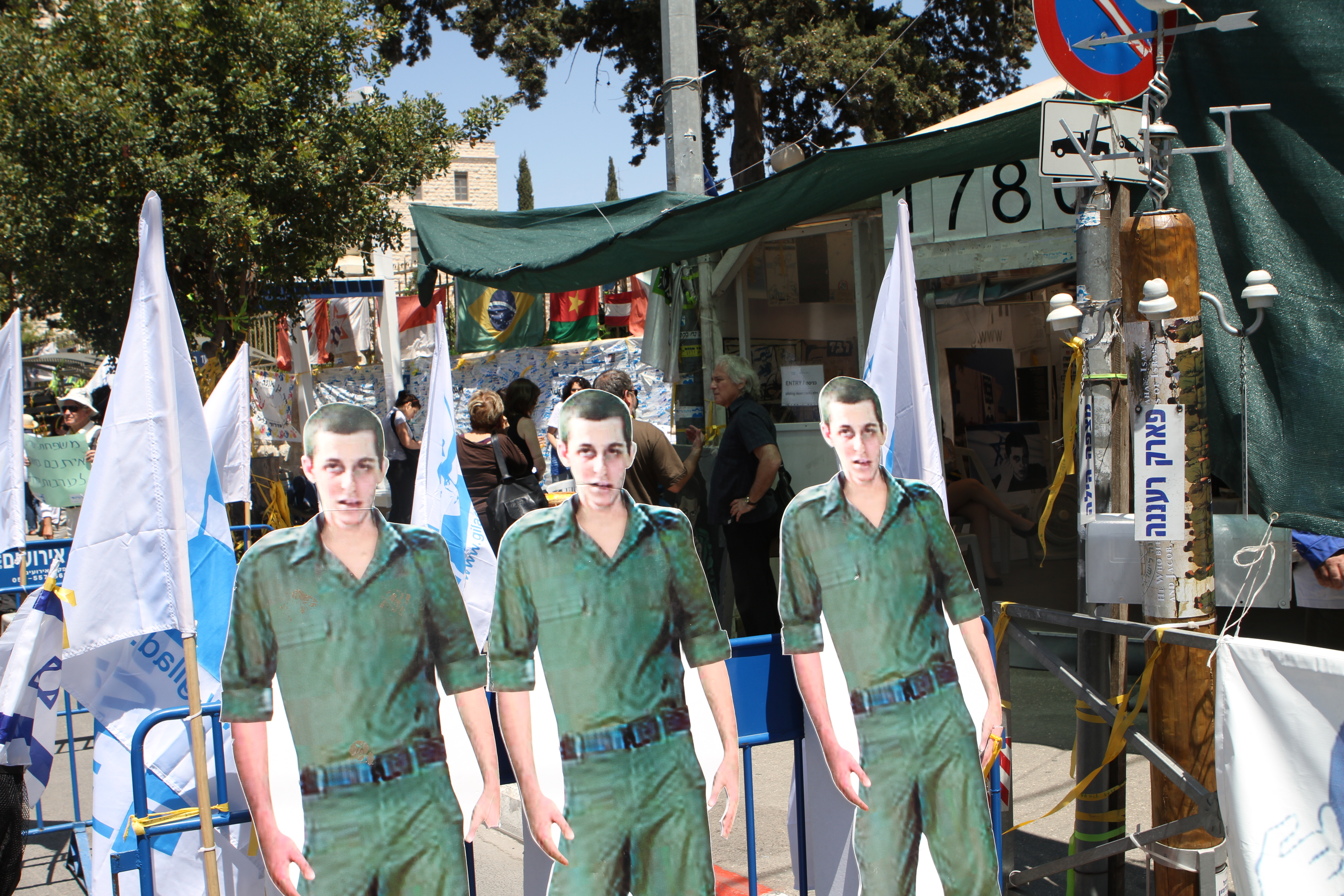 Protest in Jerusalem for releasing the Captured Israeli Soldier Gilad Shalit, holding in preson by the Hamas in Gaza since June 2006 אוהל המחאה בירושלים לשחרור החייל גלעד שליט המוחזק בשבי החמס מאז יוני 2006